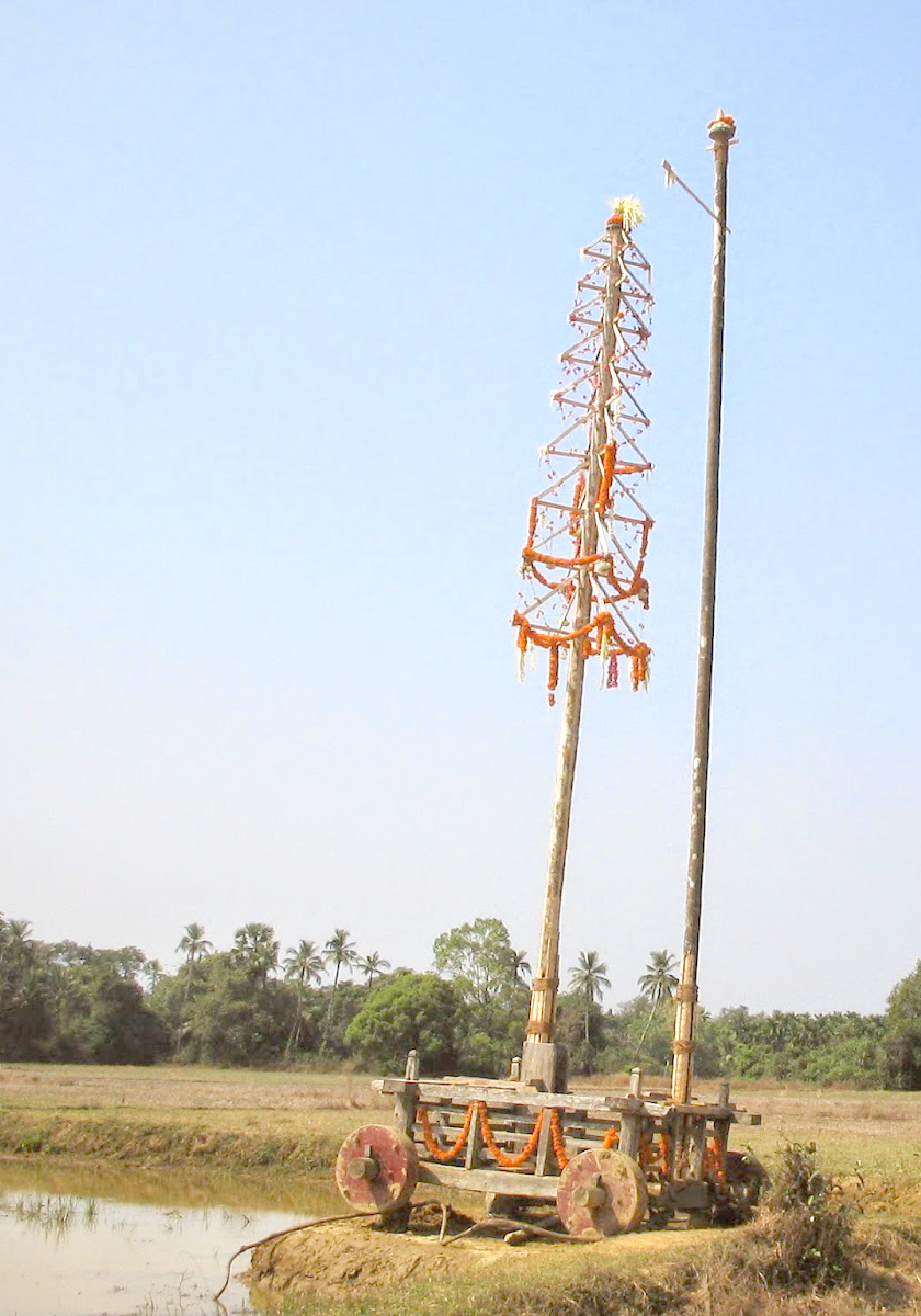 Kadandale jodu pukare